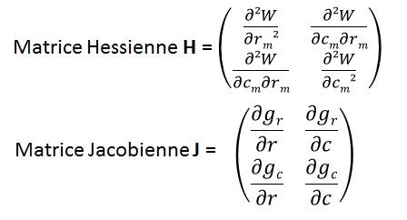 dynamiques matrix